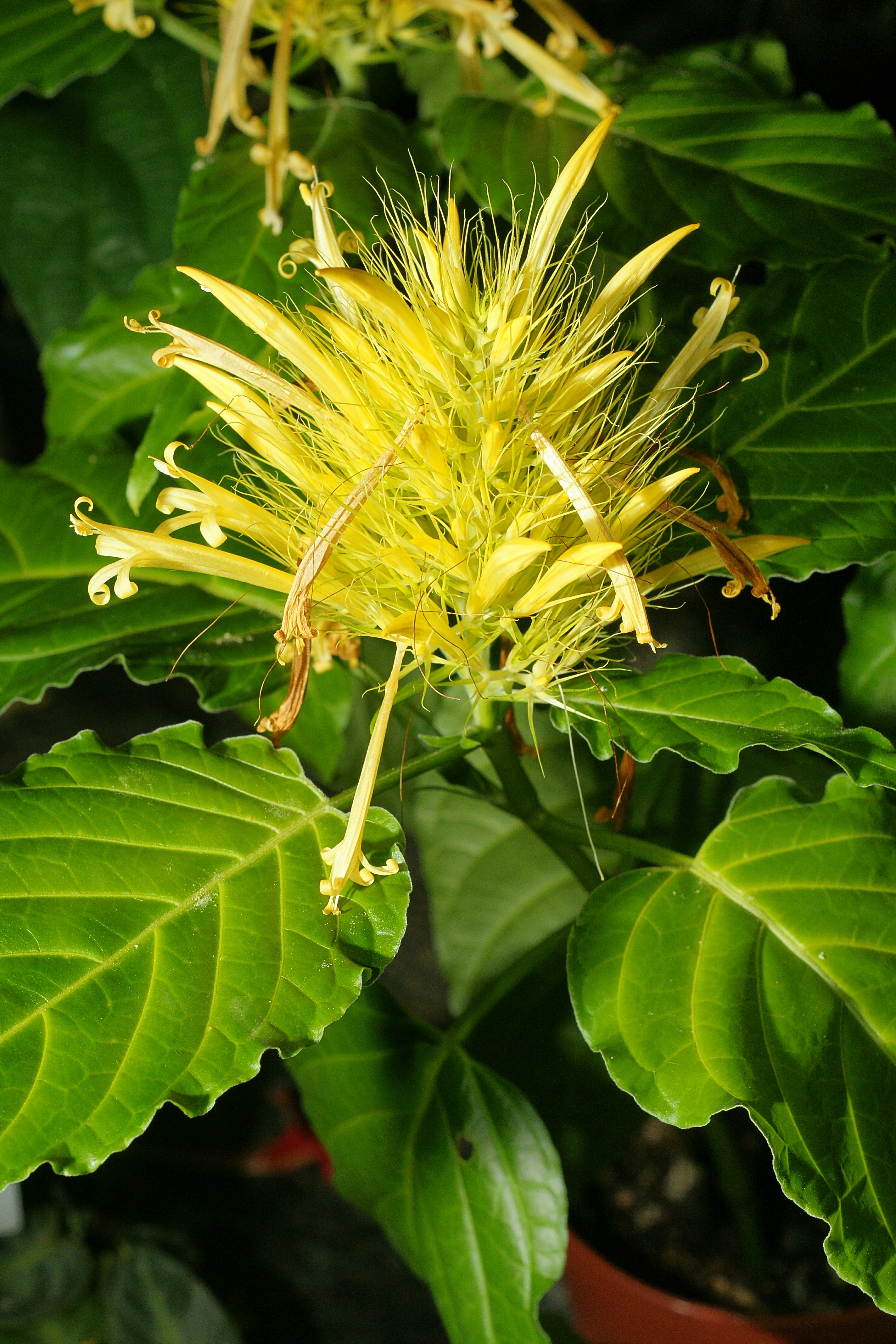 Schaueria calycotricha